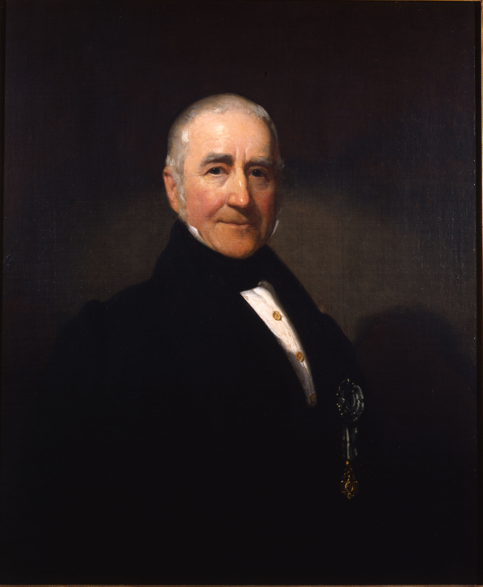 Official Gubernatorial portrait of New York Governor Morgan Lewis.